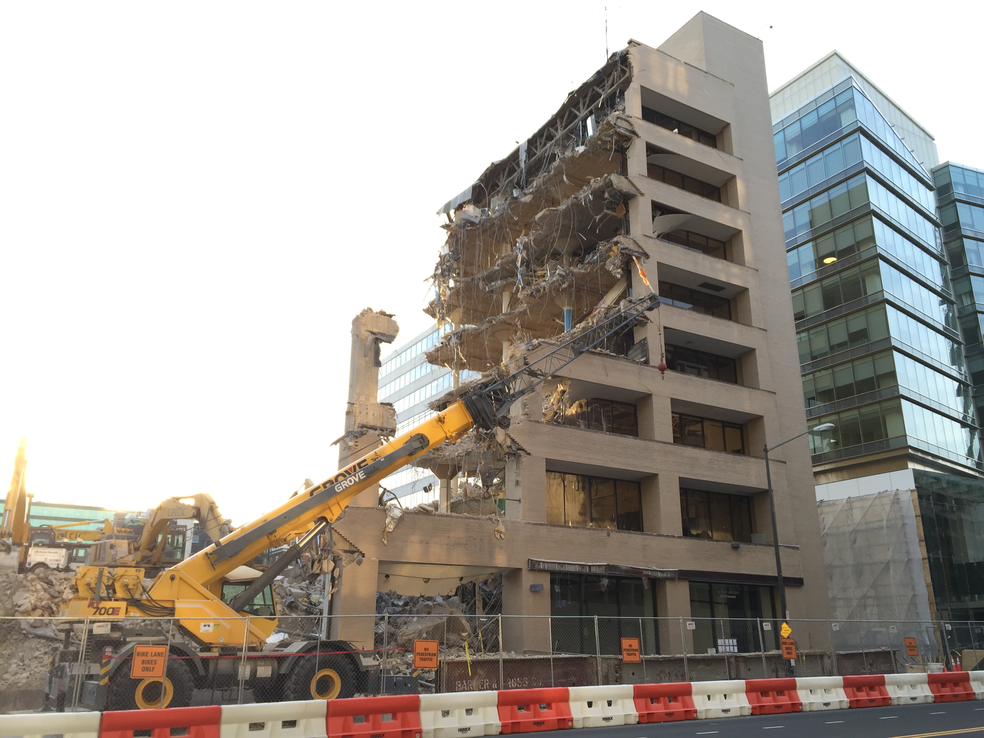 Demolition of the Washington Post headquarters at 1150 15th St. NW in Washington, DC